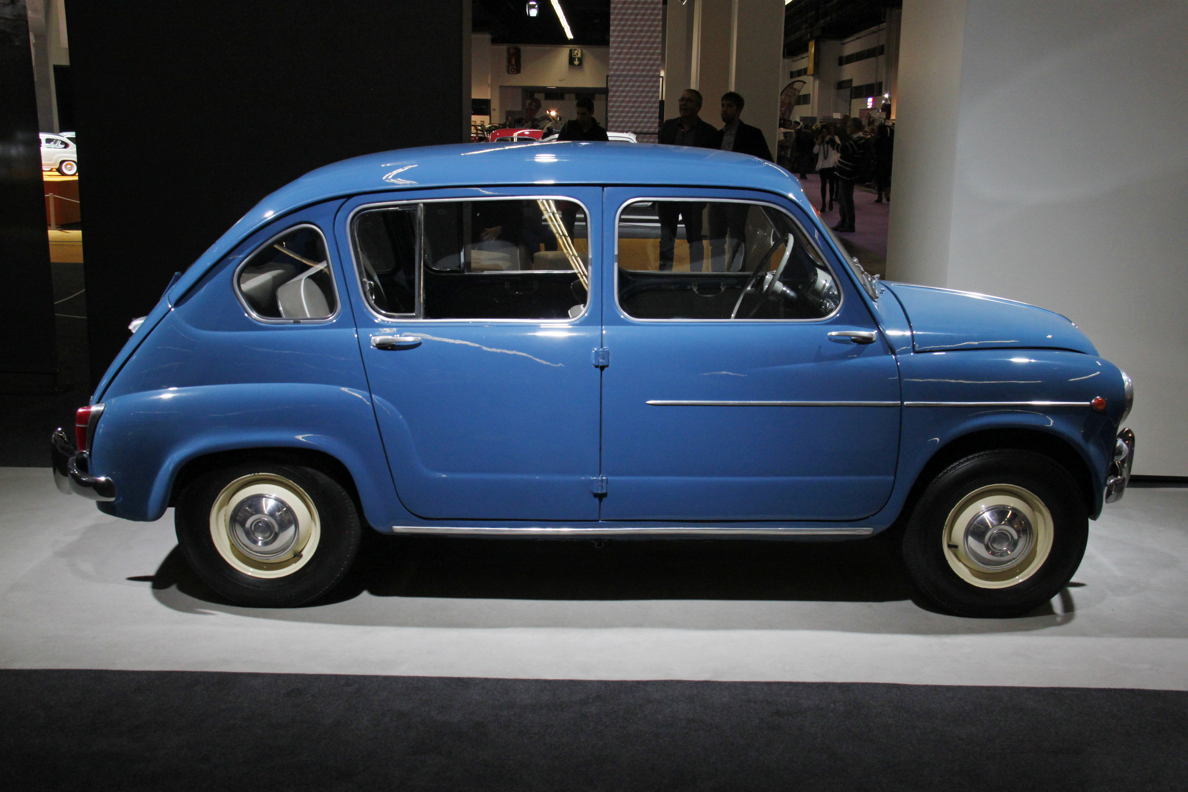 Seat 800 at Auto Retro 2017 in Barcelona